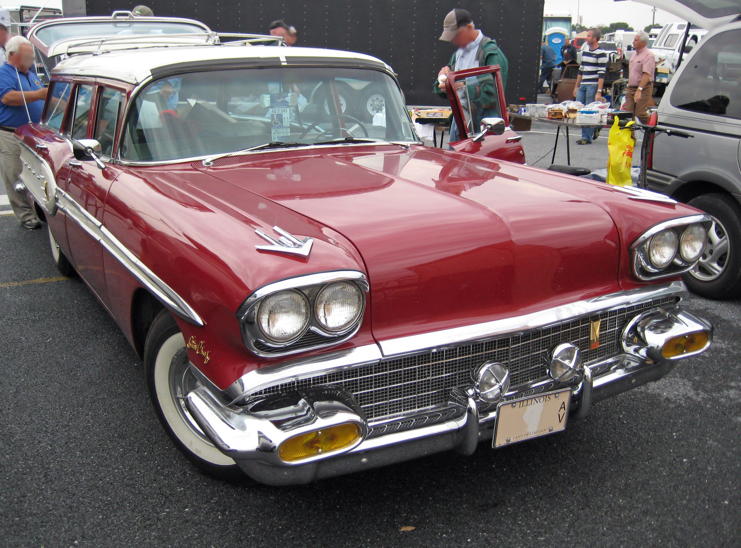 1958 Pontiac Star Chief Custom Safari (2793SD), seen in the flea market area of the AACA Fall Meet, Hershey, Pennsylvania, October 2009.